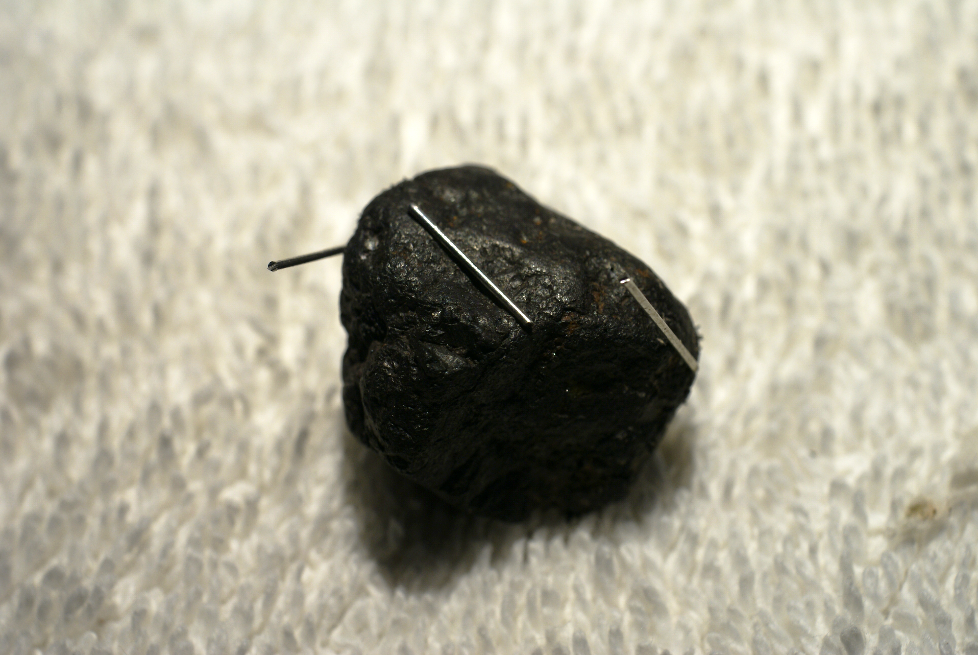 Lodestone